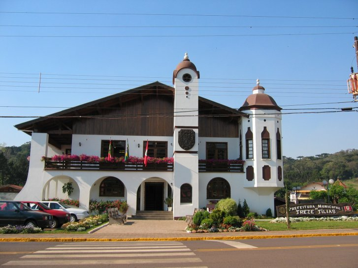 Treze Tílias - Dreizehnlinden, City Hall of the Tyrolean village in the south of Brasil